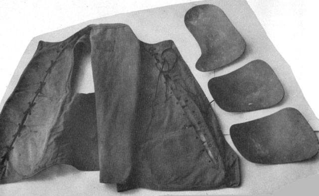 Japanese bulletproof vest made from olive-green drill cloth, with 3 pockets on each side to accommodate armor plates arranged in fish-scale fashion. Characteristics are as follows: Weight complete - 9 pounds. Thickness of plates - 0.08 inch. Plate overlap - 0.05 inch. It is believed that the weight of this vest would preclude its general use by infantry and probably would tend to confine its use to special troops. Tests have shown that the plates are penetrated easily by .303 ball ammunition at 100 yards range, with a 30° angle of impact from normal. Figure 294 from the Handbook On Japanese Military Forces.